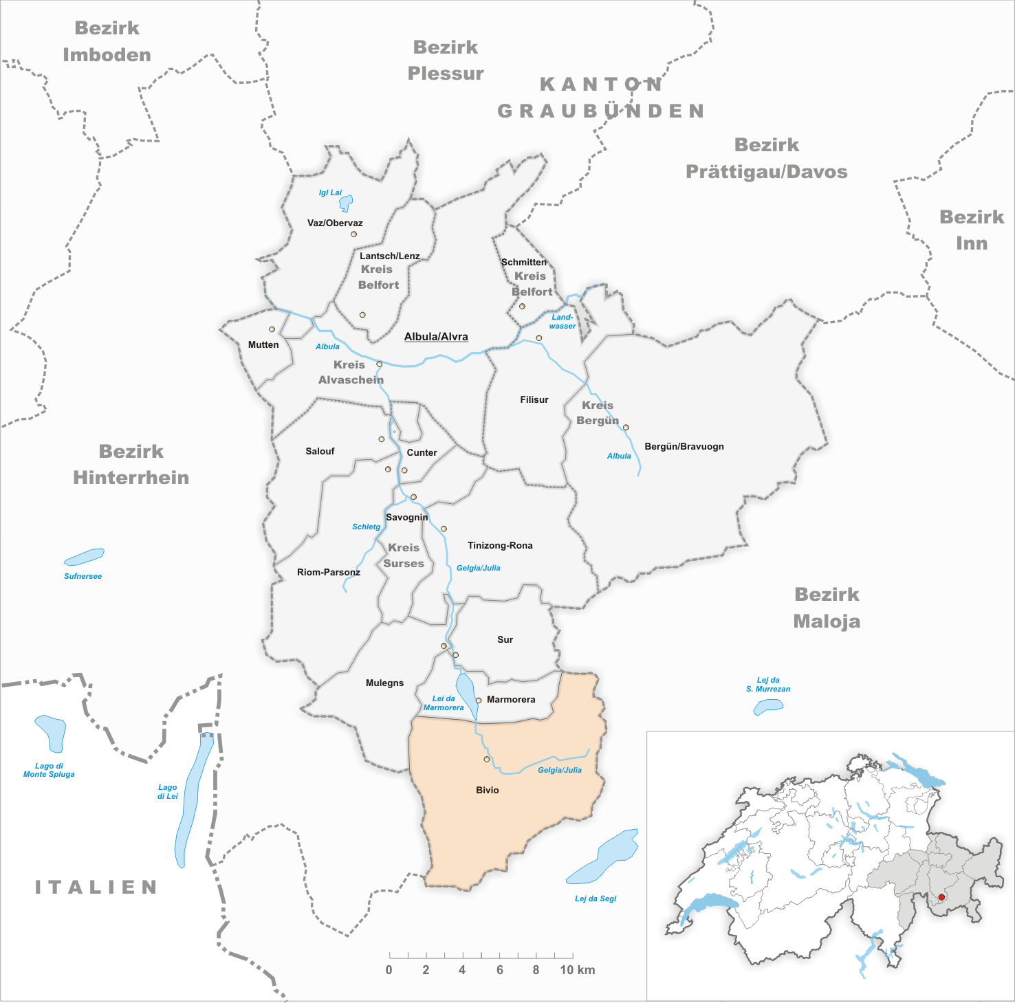 Municipality Bivio